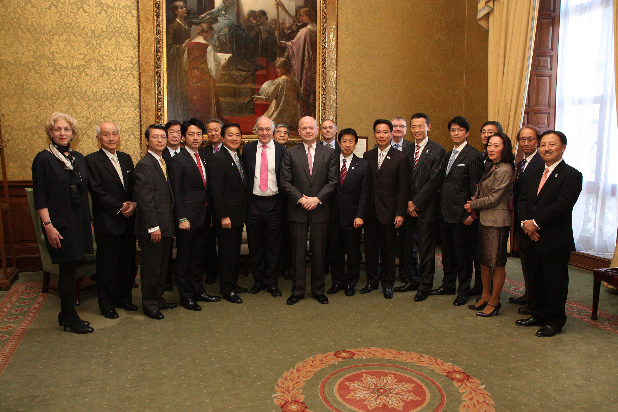 Members of the UK-Japan 21st Century Group met William Hague, Secretary of State for Foreign and Commonwealth Affairs, in the United Kingdom on May 2, 2013.